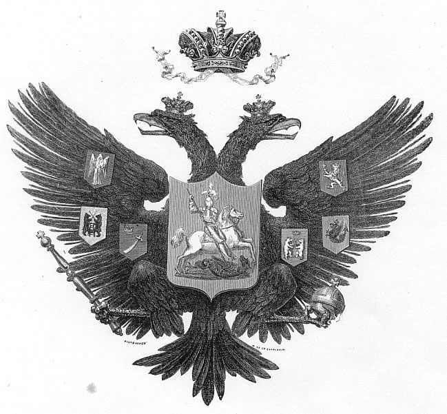 Book Illustration from the "Voyages and travels, or, Scenes in many lands : with eight hundred and fifty illustrations on wood and steel of views from all parts of the world, comprising mountains, lakes, rivers, palaces, cathedrals, castles, abbeys, and ruins, with original descriptions by the best authors". Edited by Leo de Colange. — Boston E. W. Walkers & Co, 1887. Artist Hippolyte de la Charlerie (1827-1869). Engraved by François Pannemaker (1822-1900).